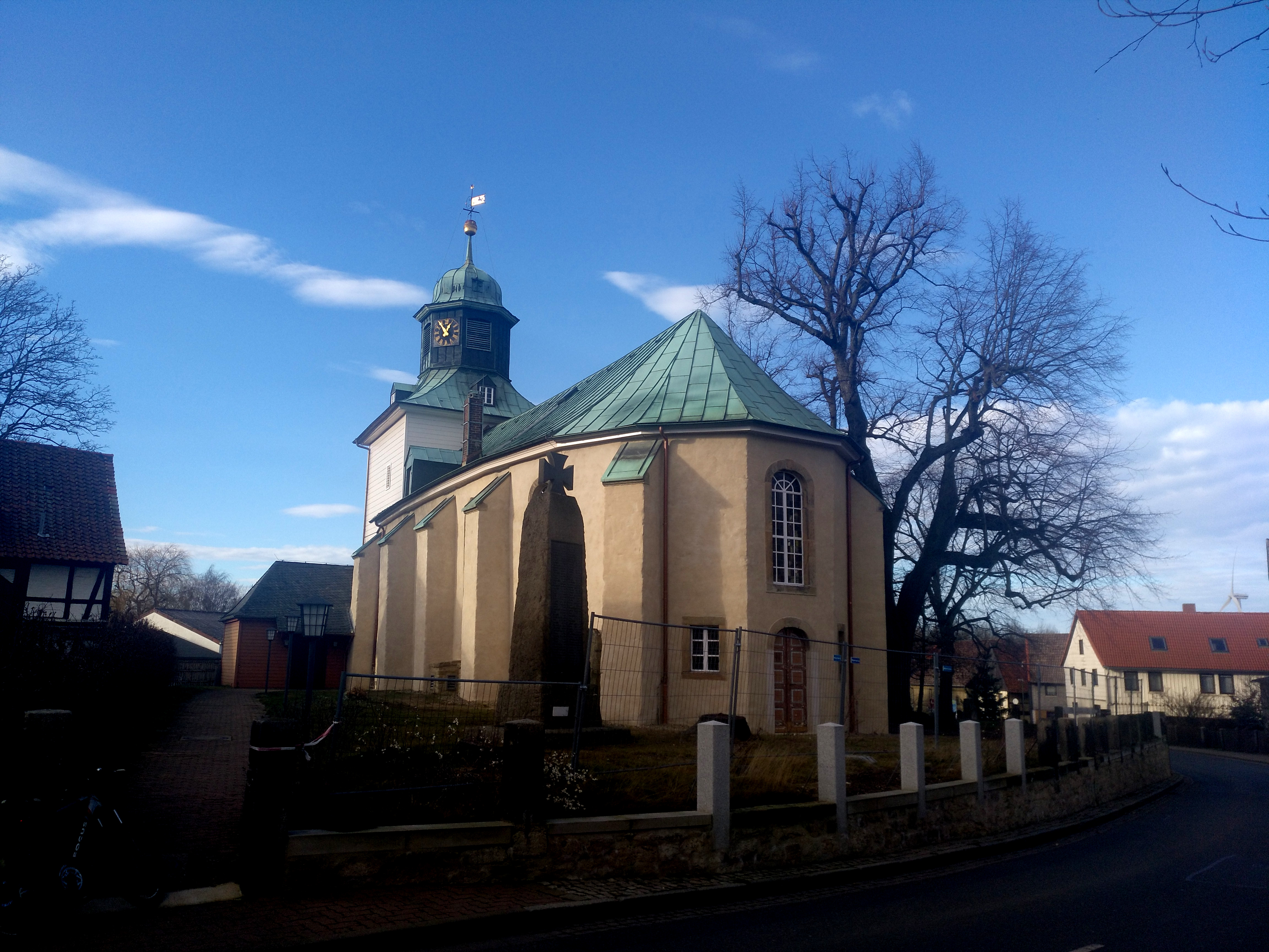 St. Mary's Lutheran church in Harlingerode, Lower Saxony, Germany, on December 30, 2019.